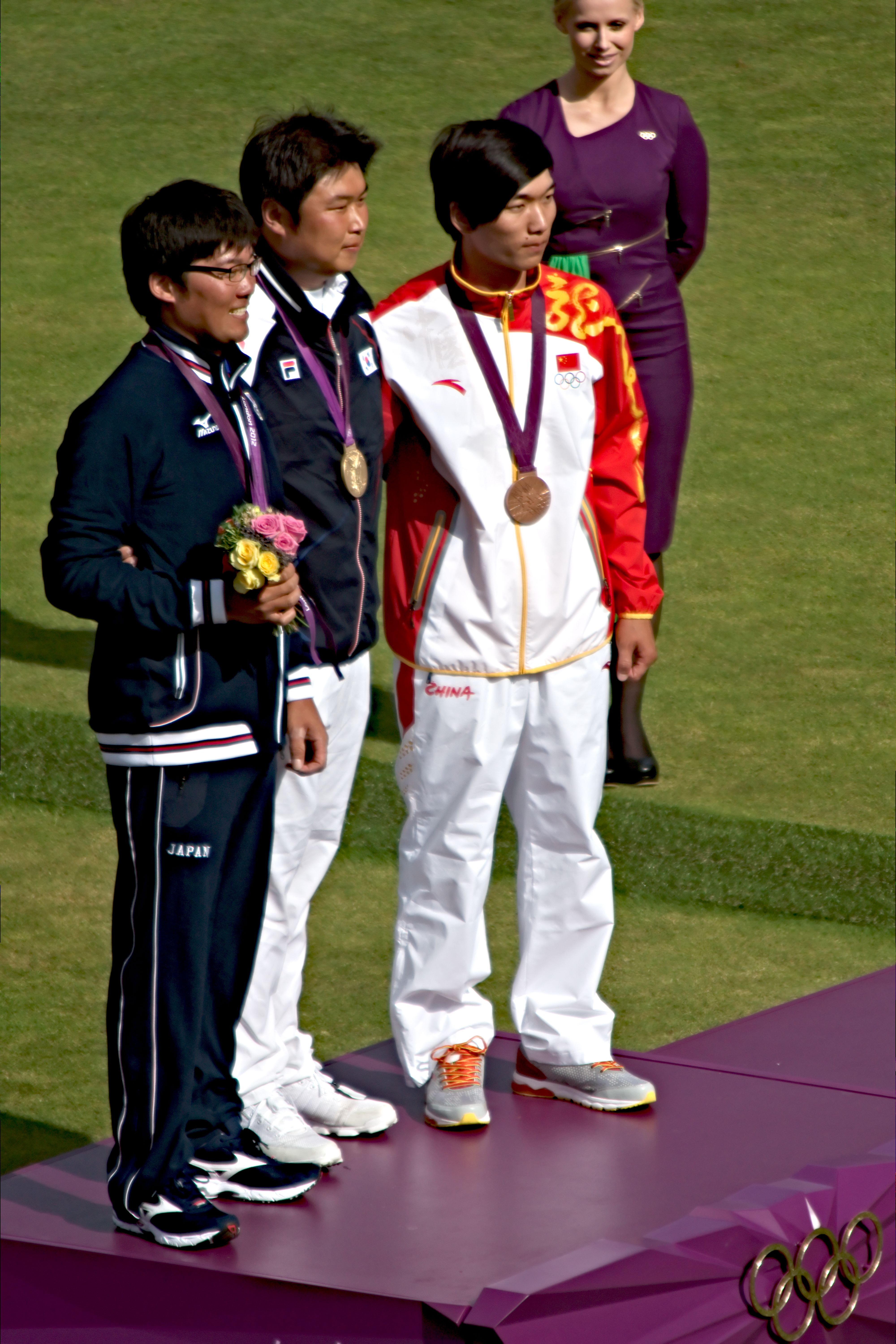 Left to right: Takaharu Furukawa (silver), Oh Jin-Hyek (gold) and Dai Xiaoxiang (bronze).